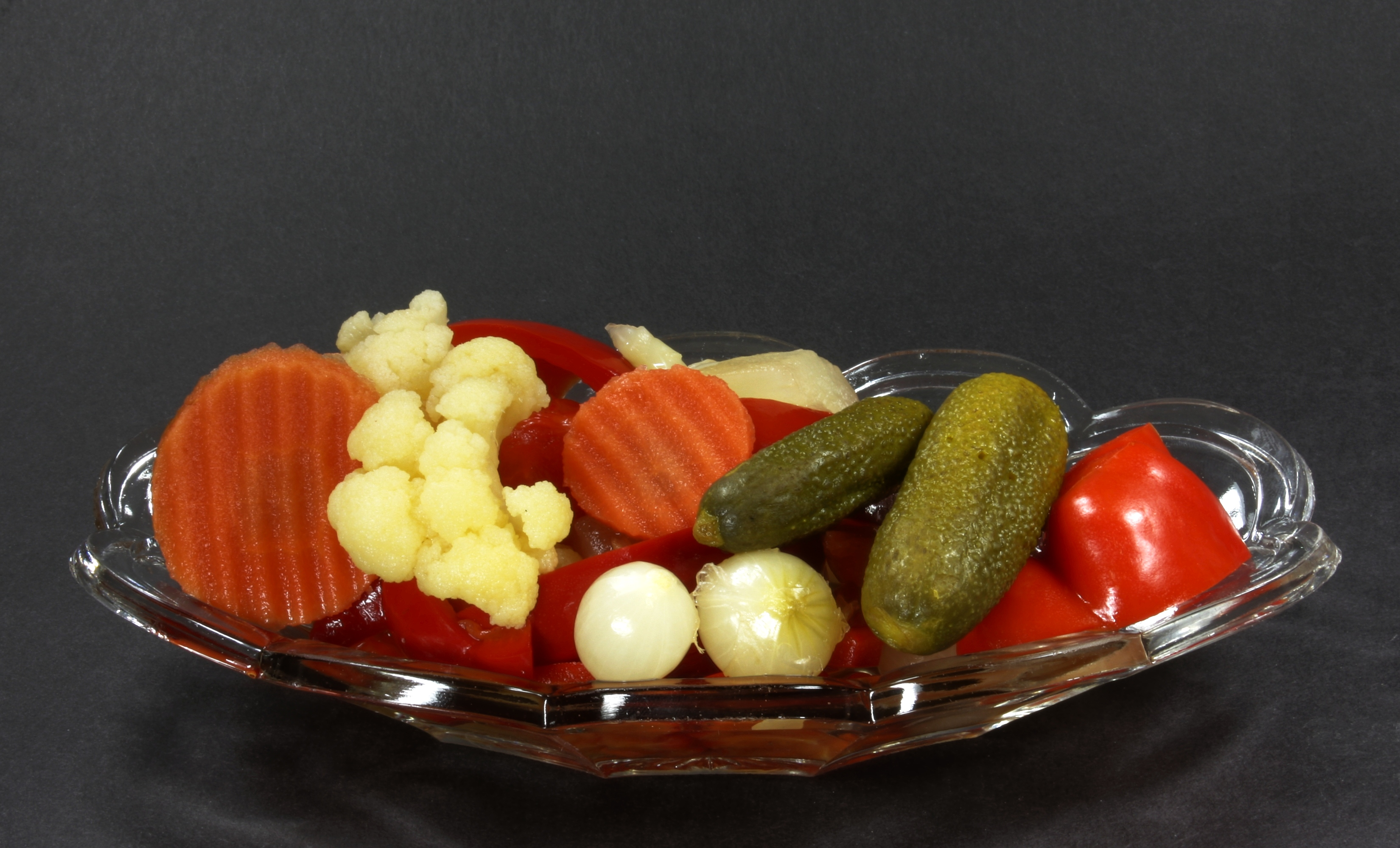 A bowl of mixed pickles